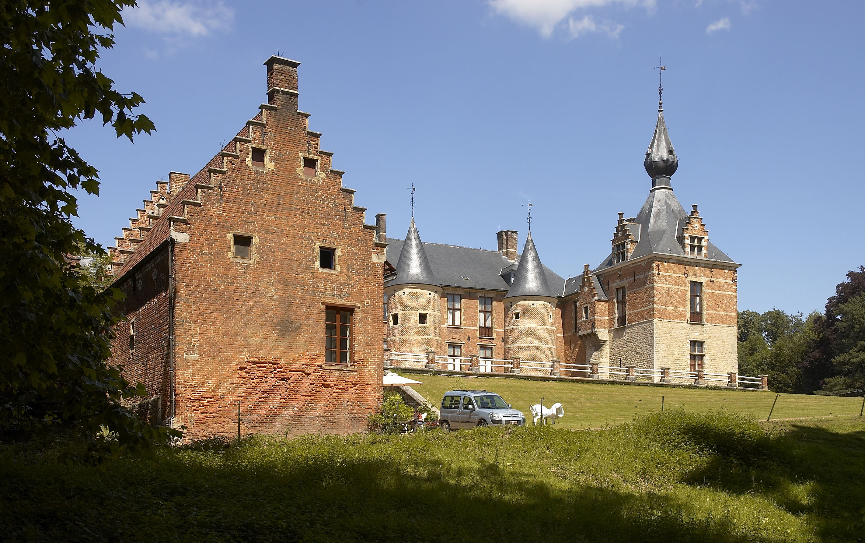 Castle in Leefdaal, Belgium